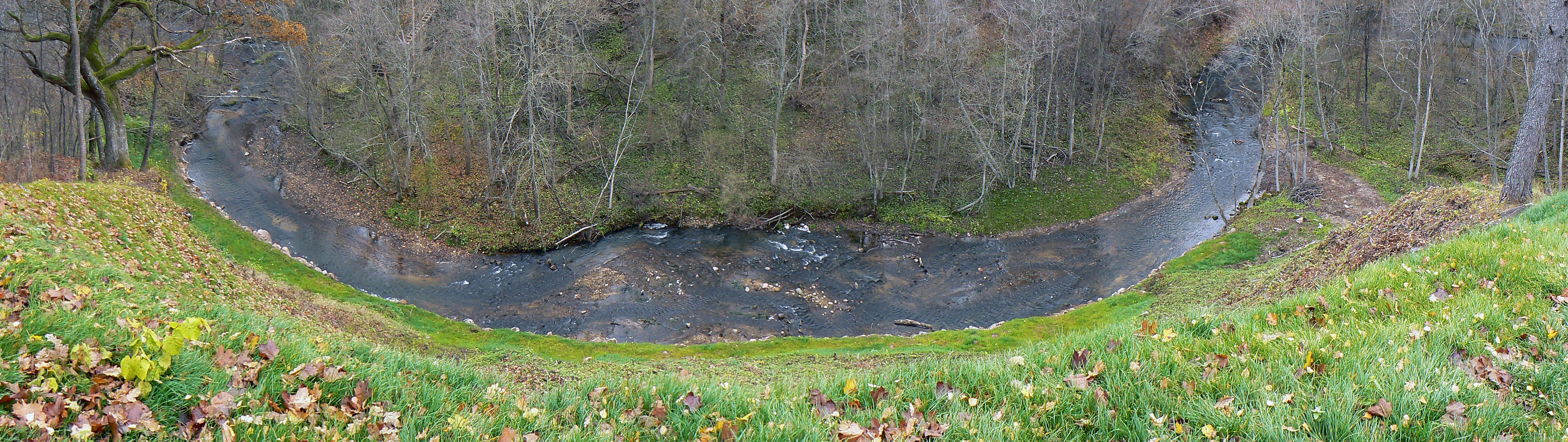 Panorama of Dūkšta river near Buividai hillfort.